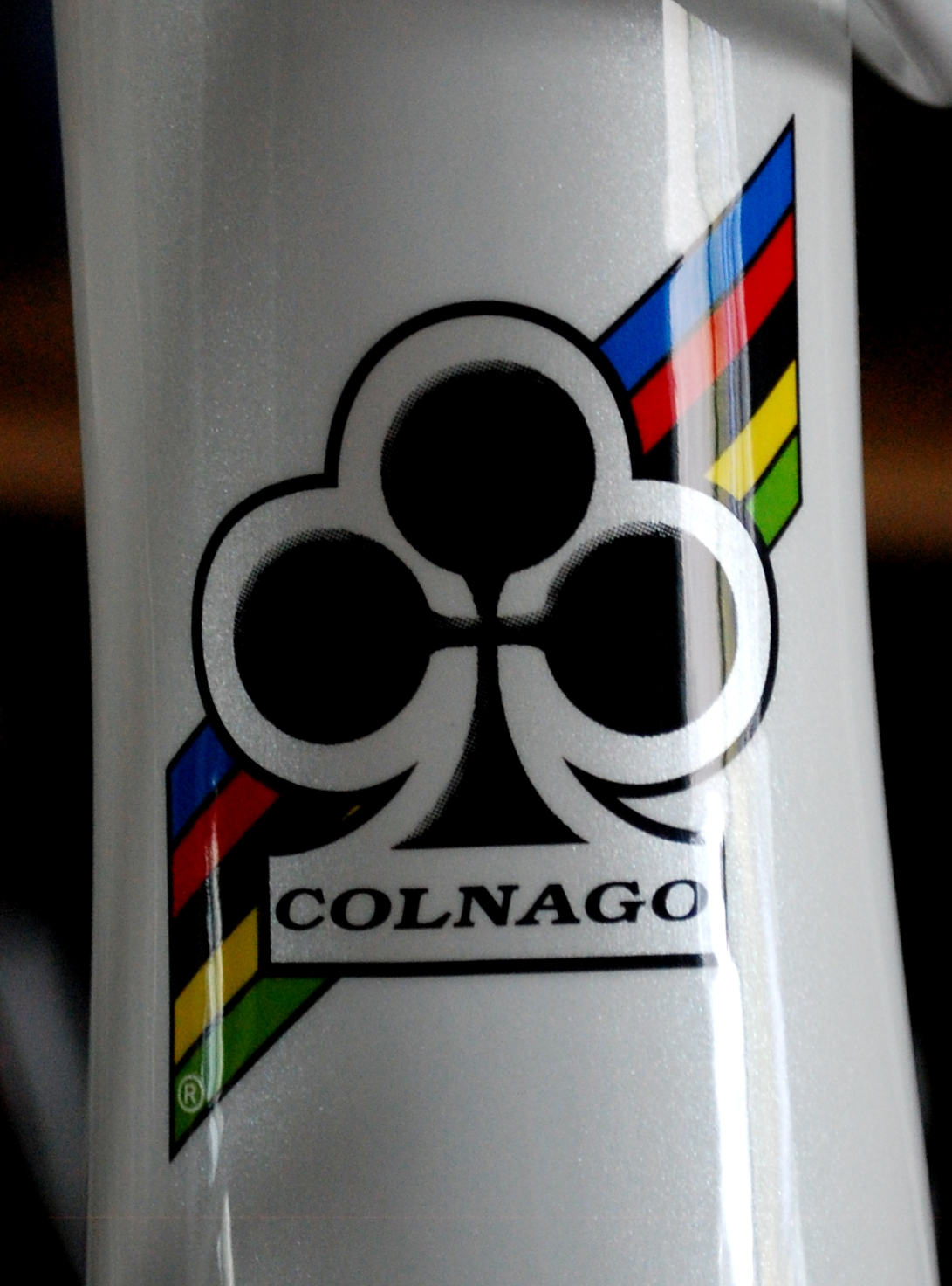 The shamrock and world champion stripe logo of Colnago